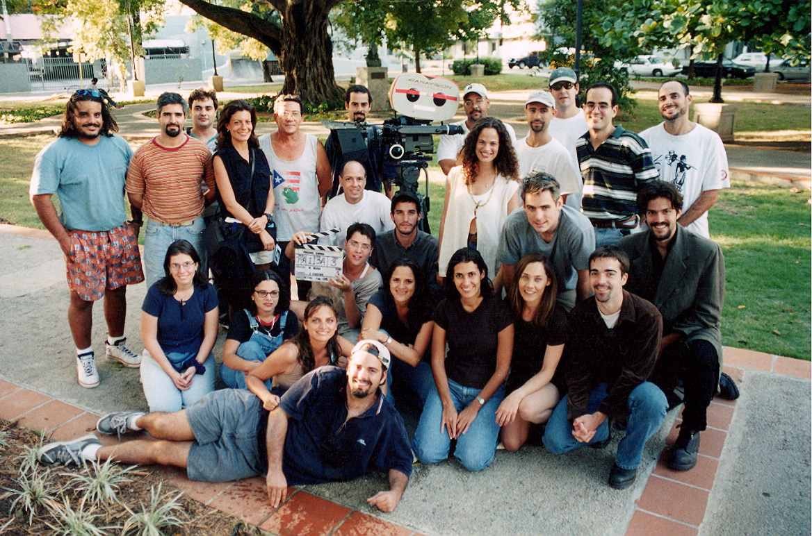 Cast & Crew